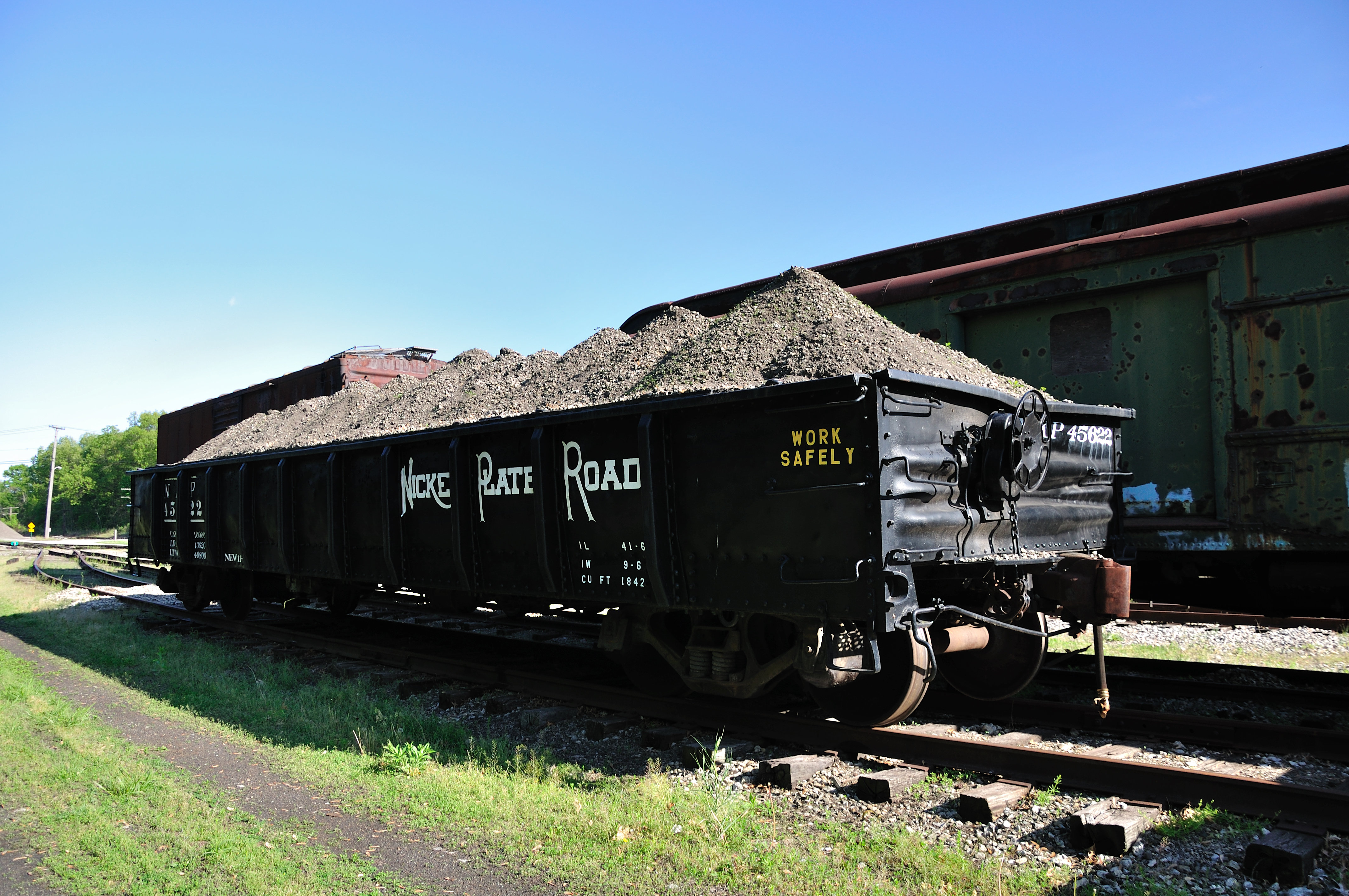 Gondola car at the Hoosier Valley Railroad Museum. Built by Ralston Car Company in 1946 as a Wheeling & Lake Erie 45500-series car. The car became NKP with the same number series after the leasing of the Wheeling by the NKP. The car then became property of N&W and was rebuilt in May, 1965. This car was donated by Norfolk Southern in February of 1994.